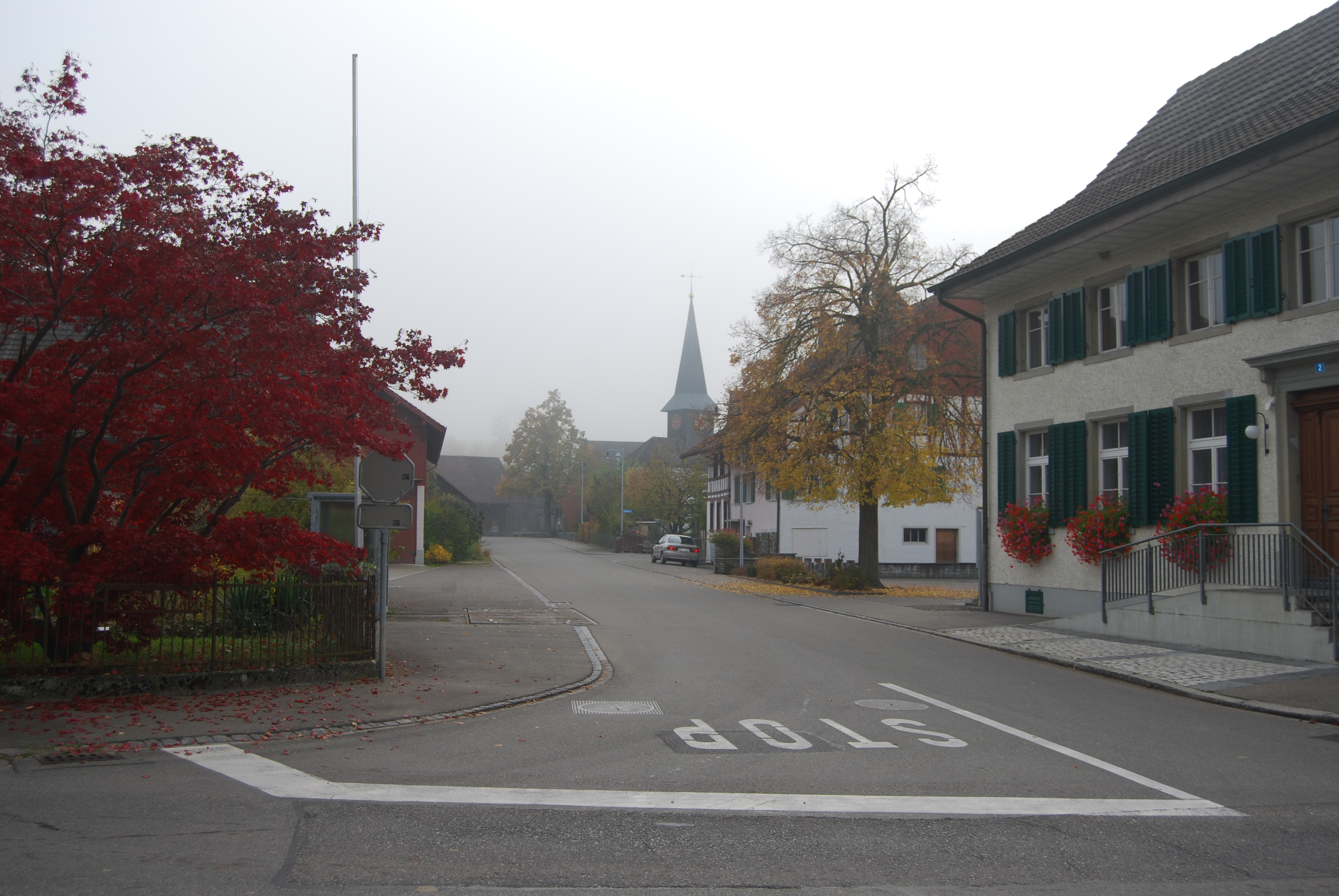 Dorf, canton of Zürich, SwitzerlandEsperanto: Dorf, Kantono Zuriko, Svislando